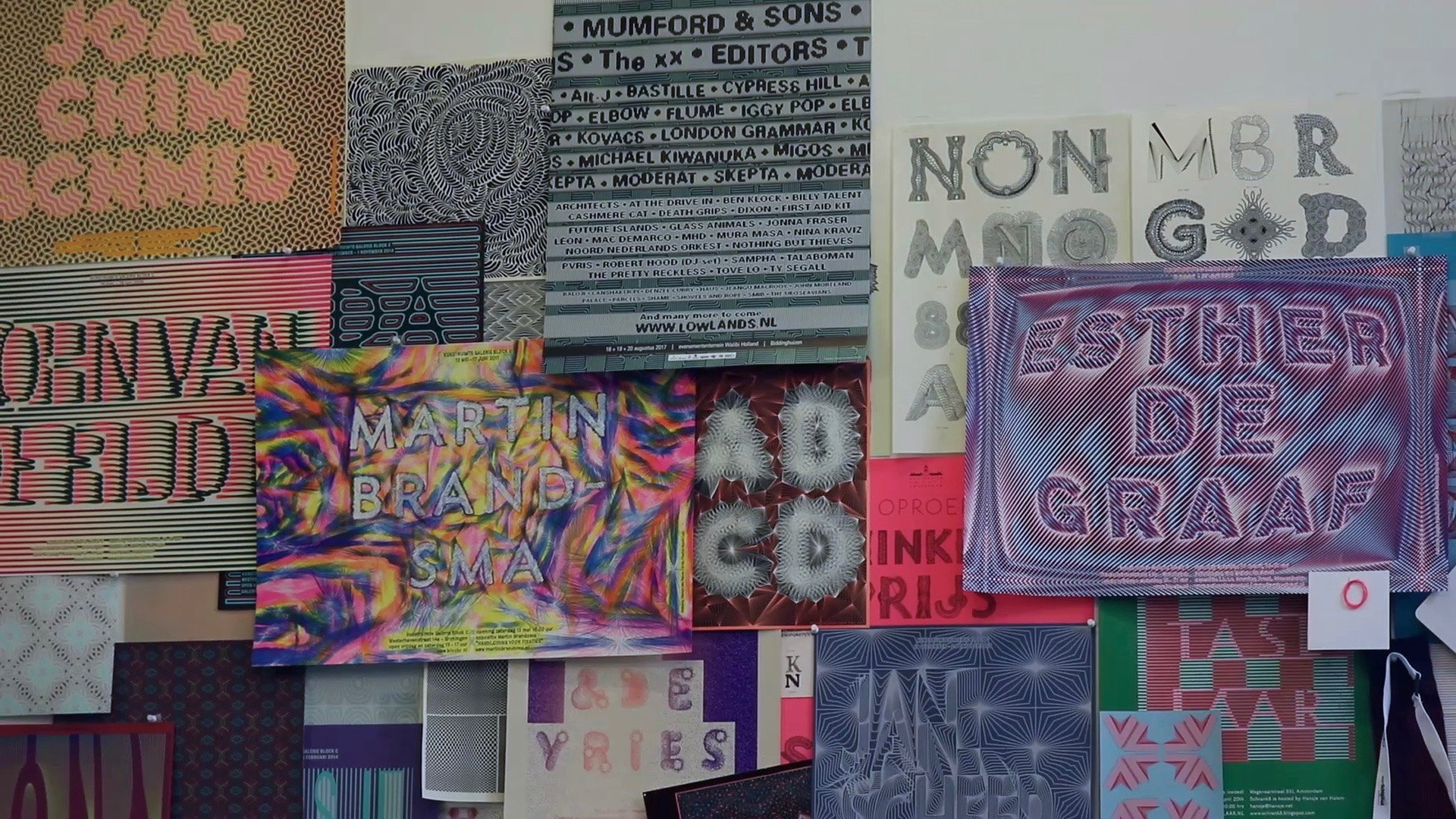 Selection of graphic designs by Hansje van Halem. Still from video interview with Hansje van Halem at